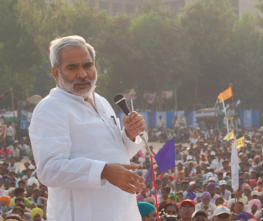 Raghuvansh Prasad Singh, Delhi.